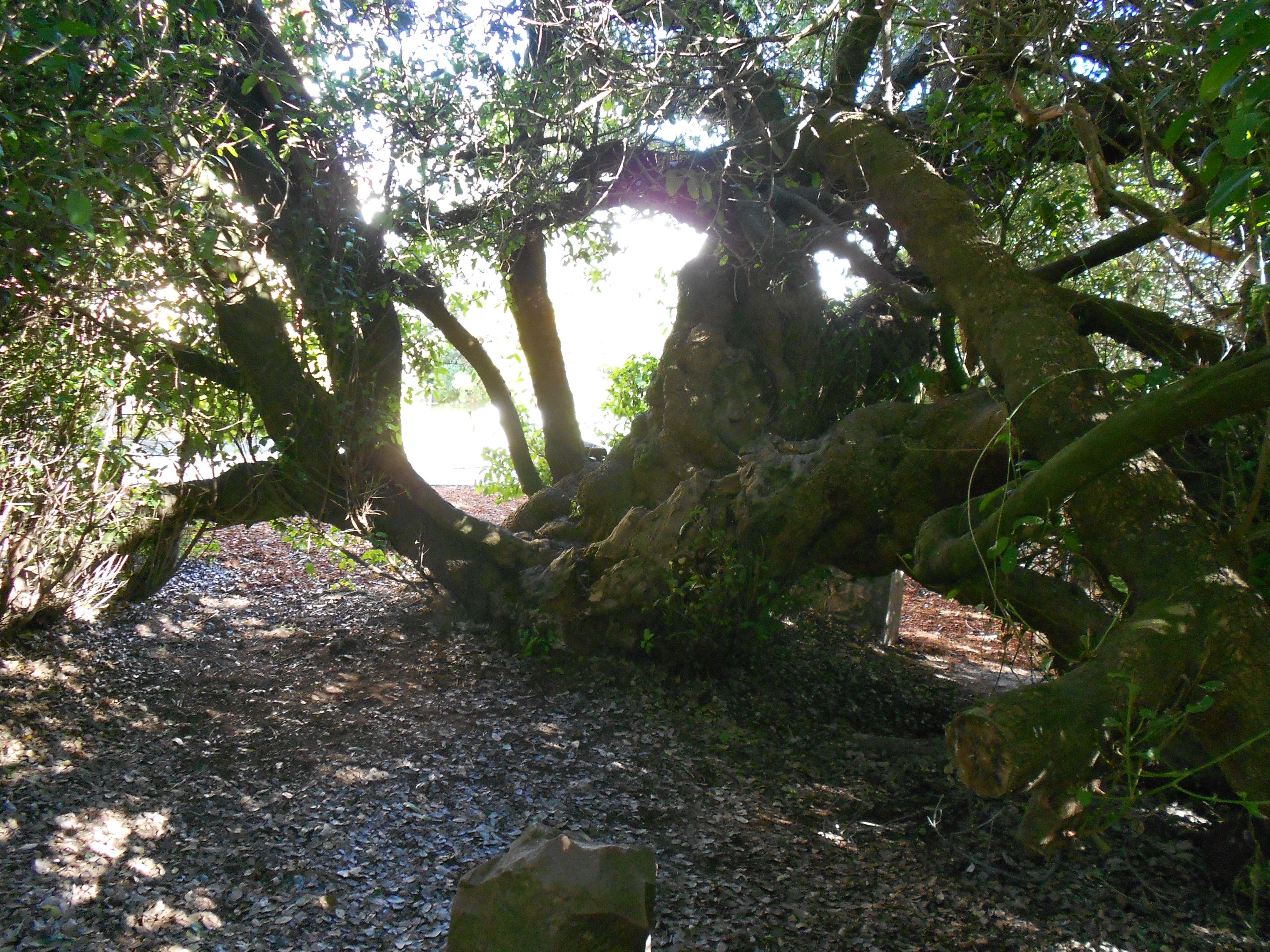 The old milkwood tree (Sideroxylon inerme) inside the Dias Museum Complex has been used as a post office since 1501. In 1500, on his return journey from the east, Pedro de Ataide left a letter of importance in a shoe or iron pot under a tree. In 1501 this letter was found by Joao da Nova, commander of the third East India fleet en route to India. This media shows a South African Protected Site with SAHRA file reference 9/2/064/0003/001.